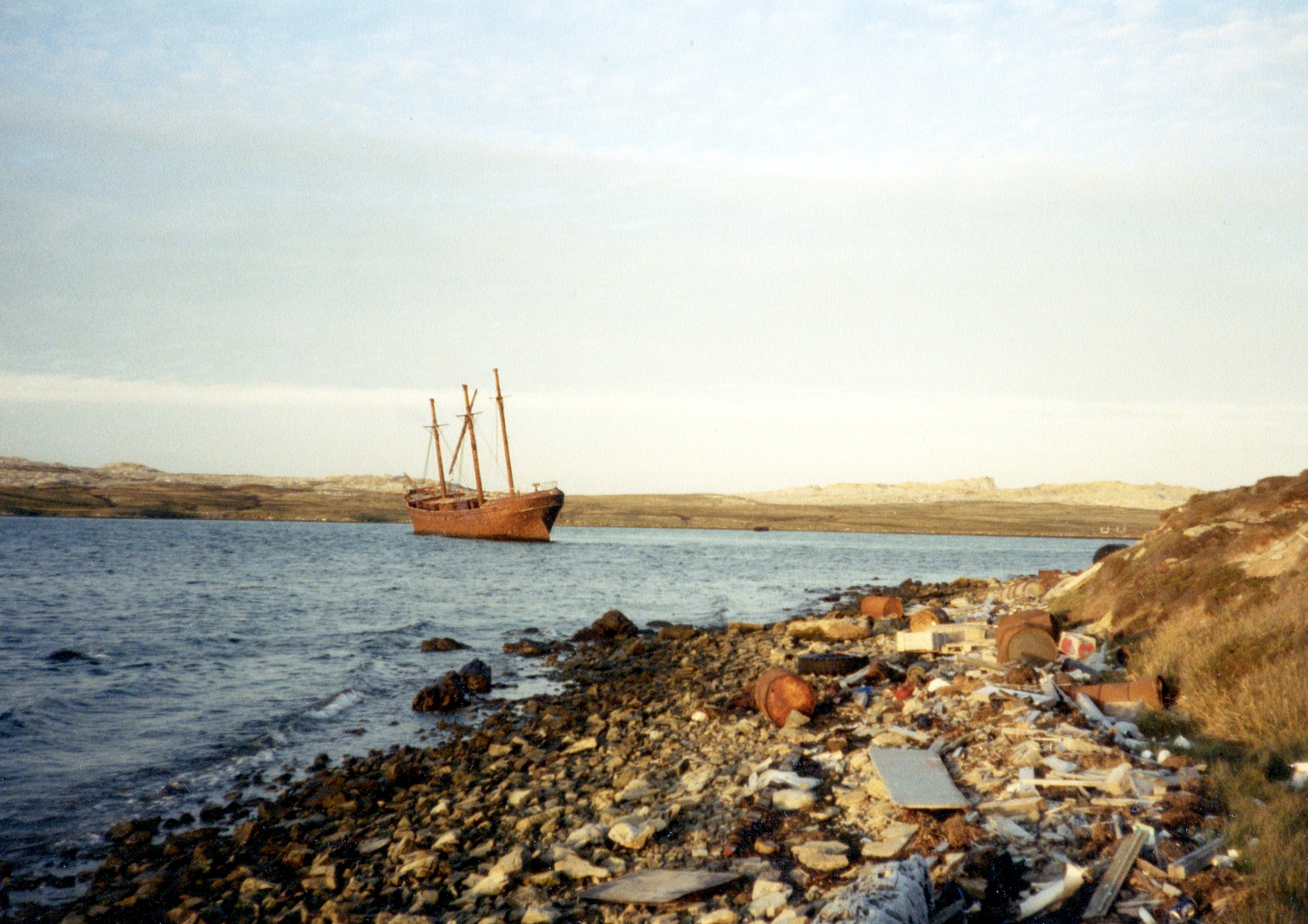 The "Lady Elizabeth" wreck in Stanley Harbour near RAF Stanley